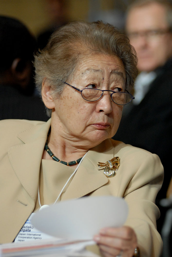 CAPE TOWN/SOUTH AFRICA, 4JUN08 - Sadako Ogata, President, Japan International Cooperation Agency, Japan, captured during the Africa Economic Brainstorming session of the World Economic Forum on Africa 2008 in Cape Town, South Africa, June 4, 2008. Copyright World Economic Forum/Eric Miller (mailto: )